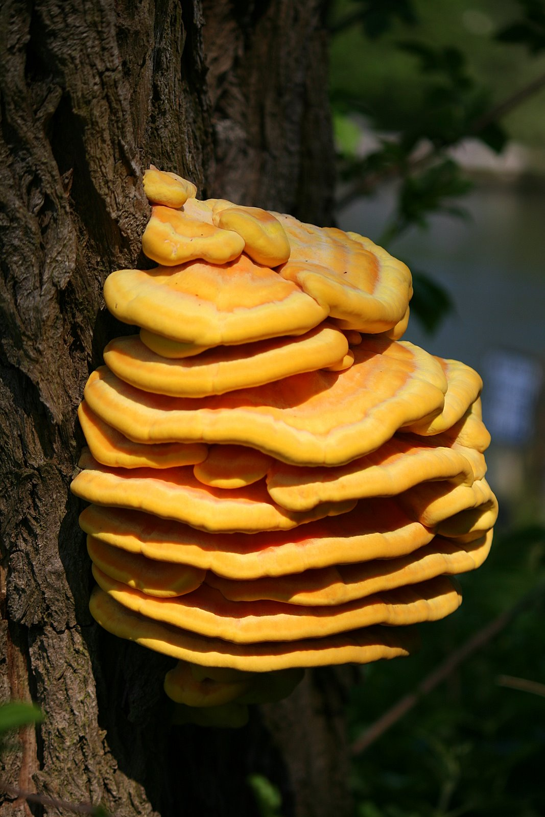 Laetiporus sulphureus growing on tree